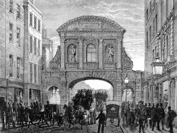 Artists' impressions of Temple Bar, London. Temple Bar, London in 1870. Illustrated London News.